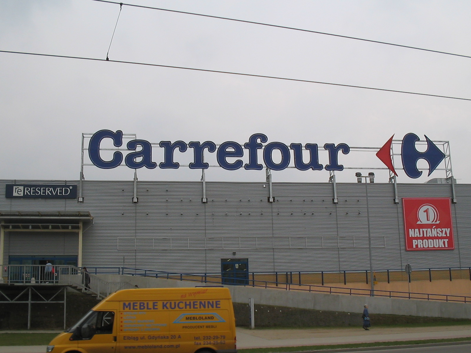 Carrefour in Elblag, Poland